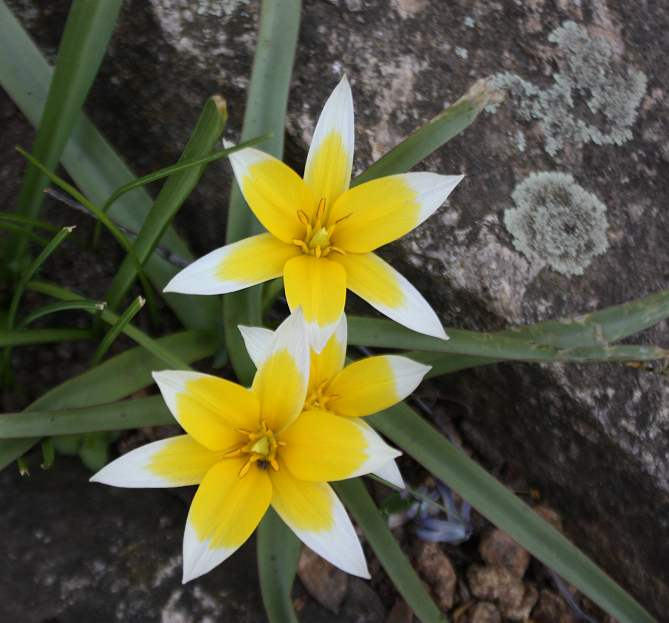 Tulipa tarda, Brno, CR